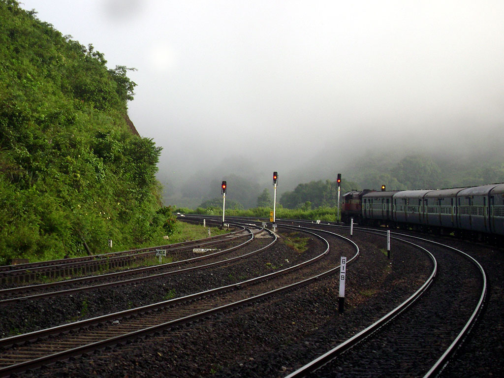 Rail tracks view at Laxmipur Road, Odisha